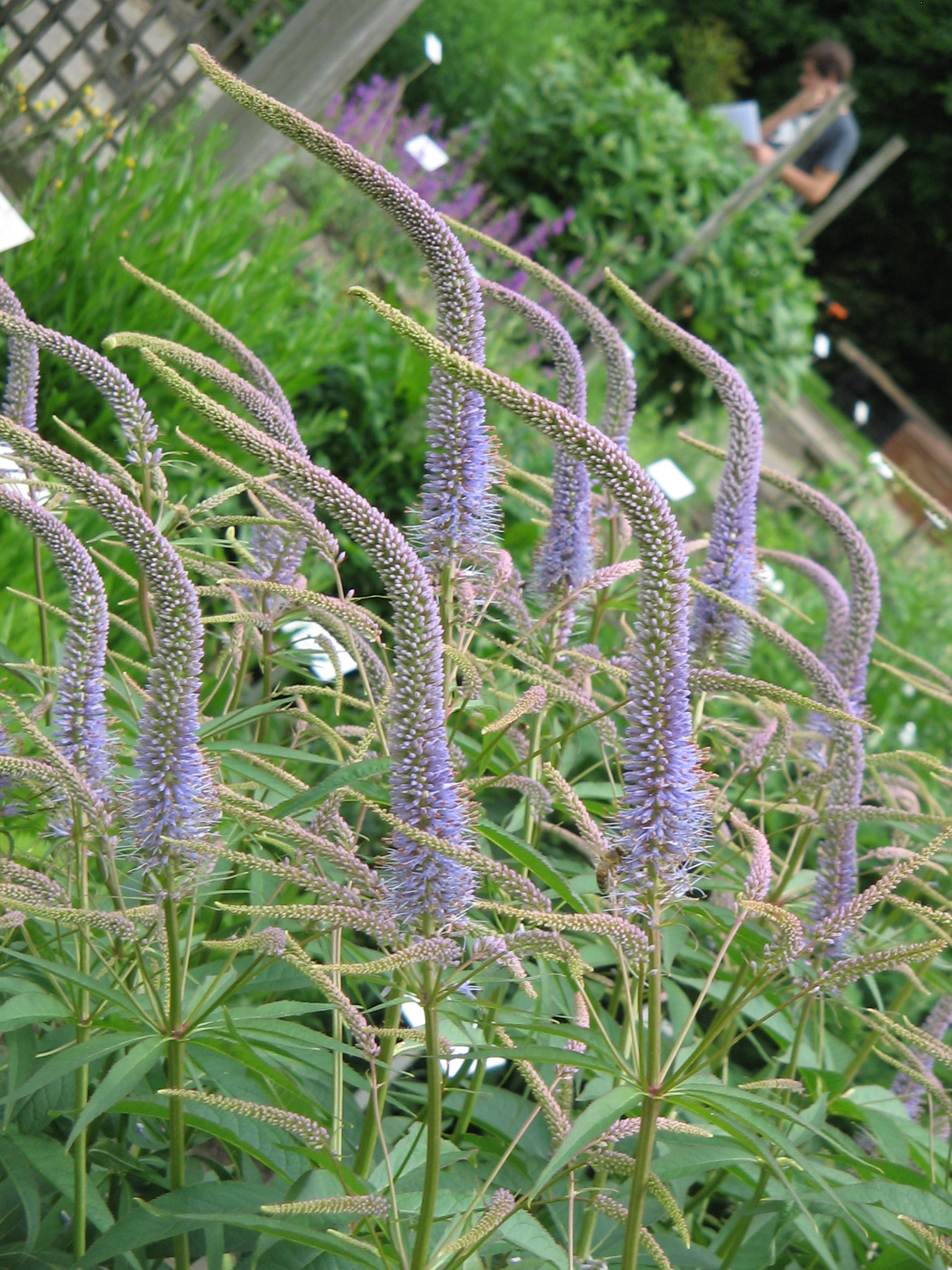 Veronicastrum virginicum